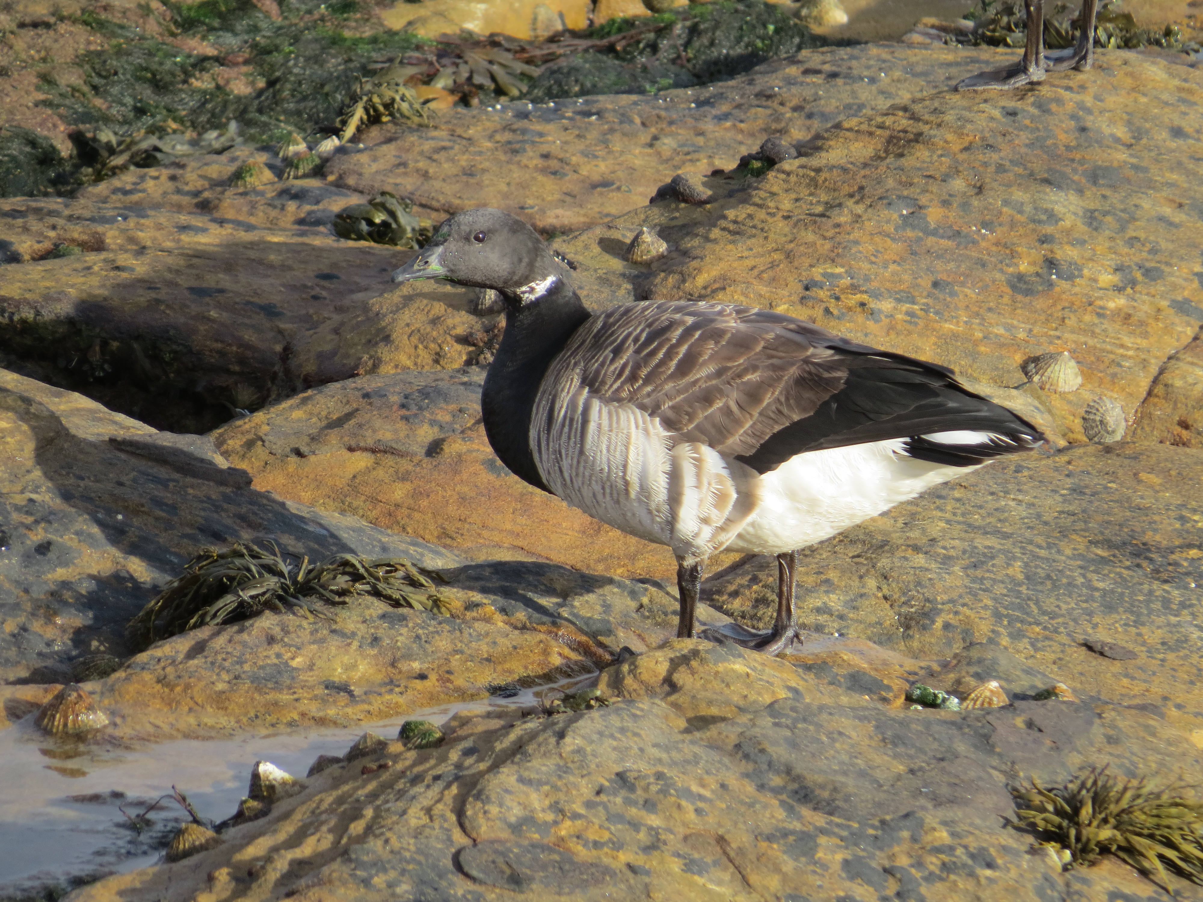 Pale-bellied Brent Goose Branta bernicla hrota, adult. St. Mary's Island, Whitley Bay, Northumberland, UK.